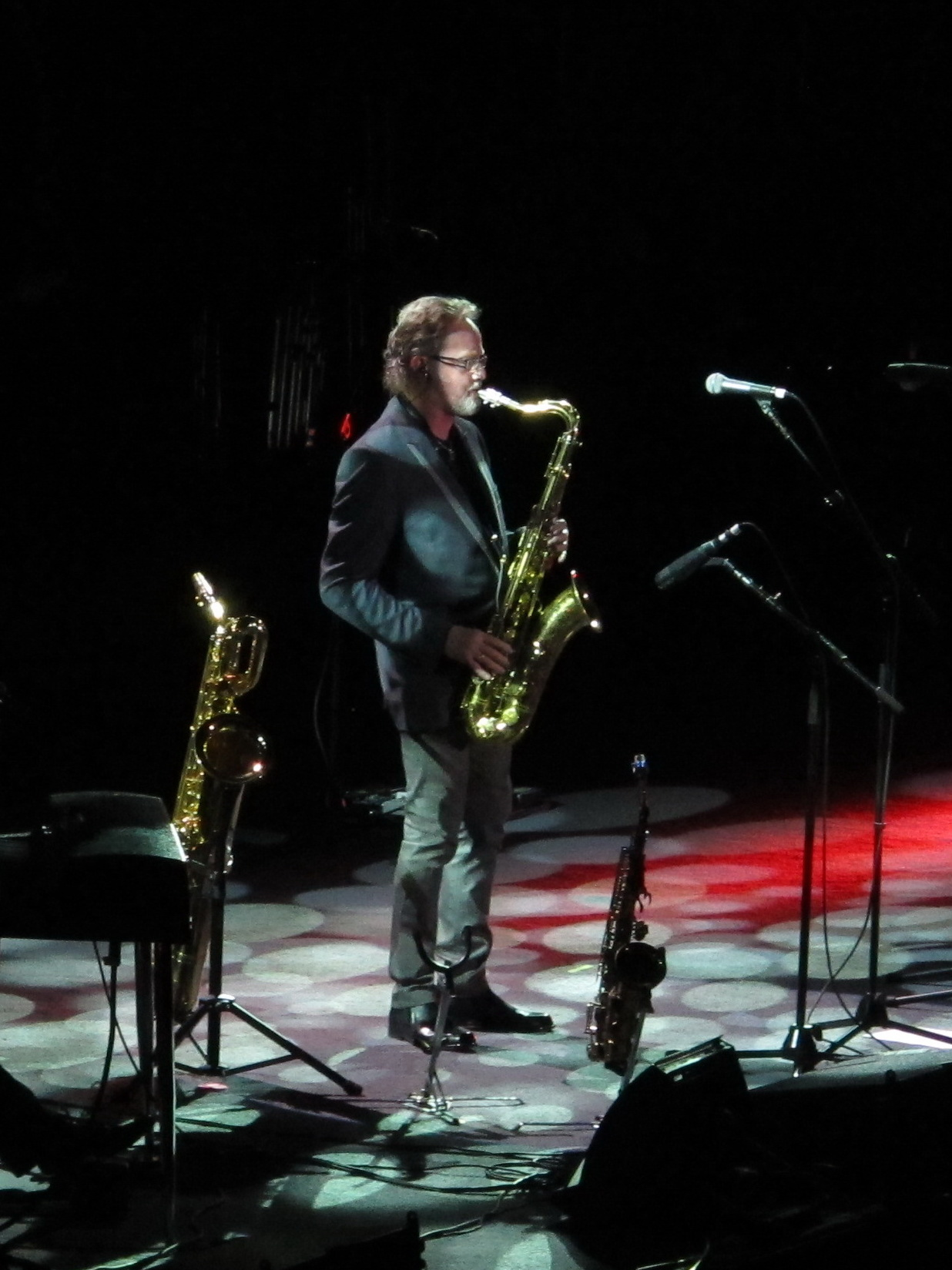 John Helliwell (of Supertramp) performing at the Save-On-Foods Memorial Centre.